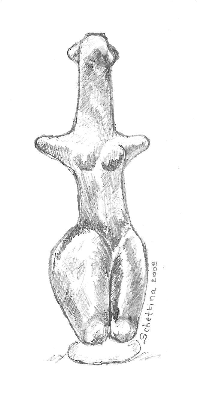 Venus of Langenzersdorf; drawing by Martina Schettina 2009